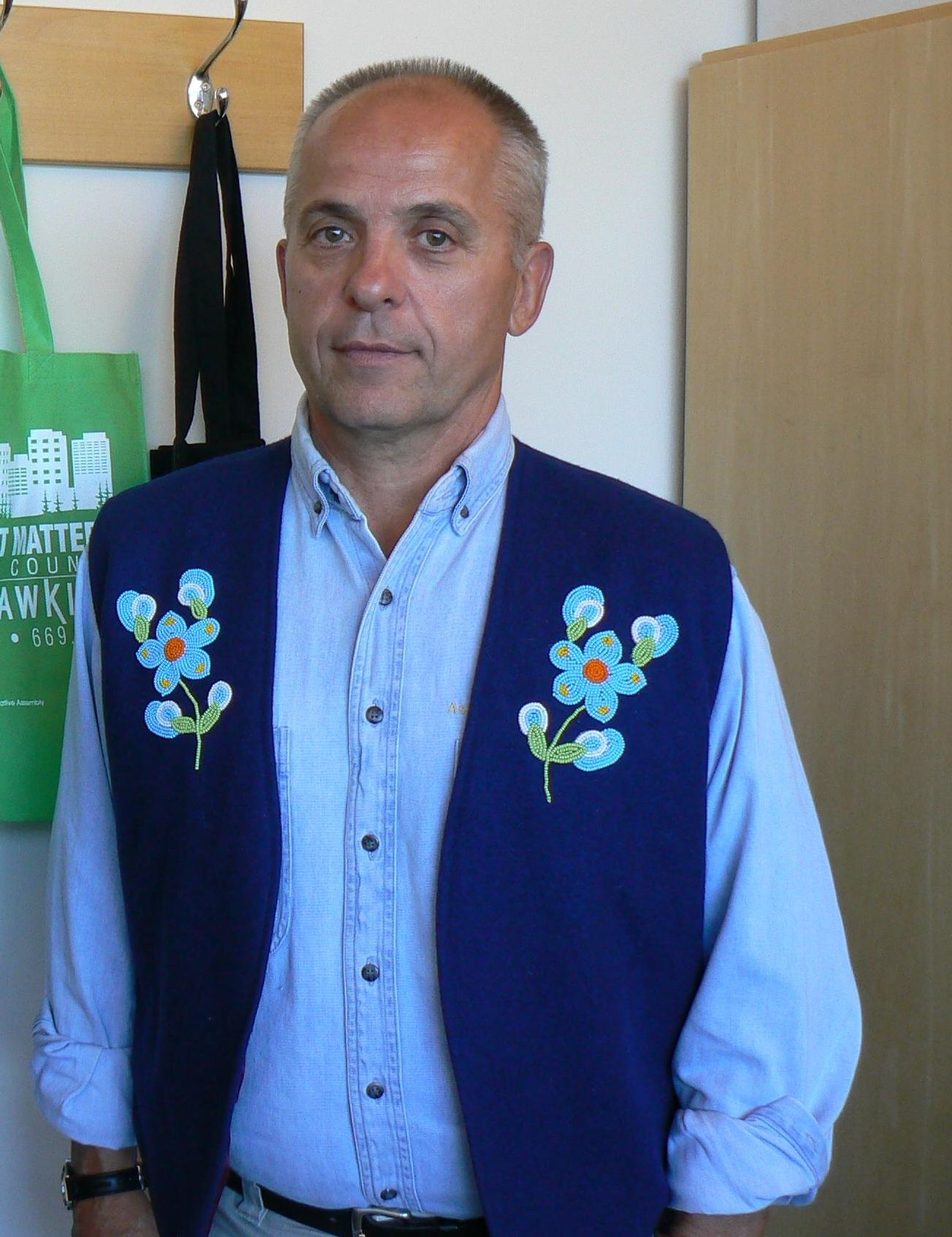 Michael Miltenberger deputy premier and minister for environment and natural resources for the NWT. Cropped.